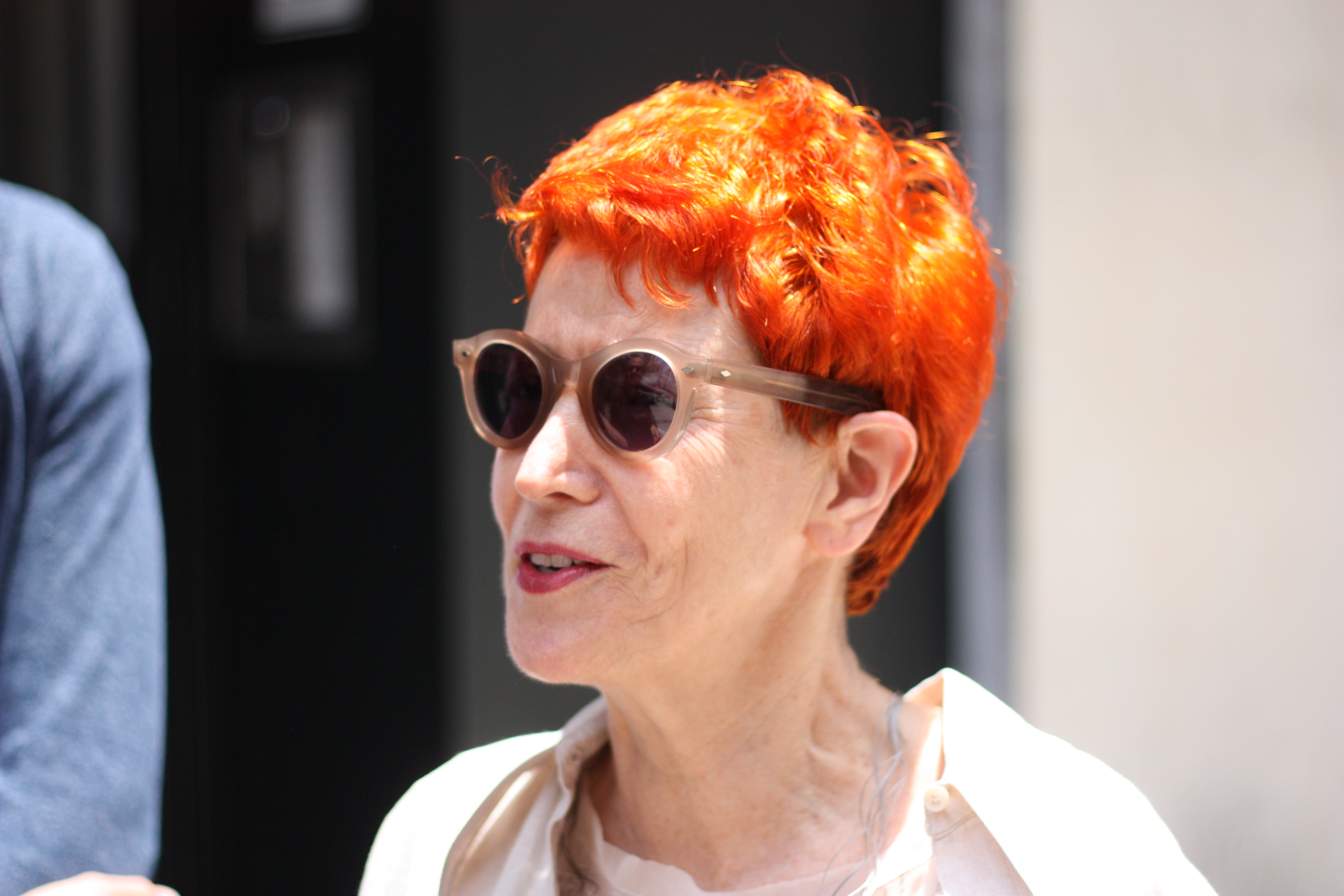 April Greiman at Broadway, Los Angeles CA.